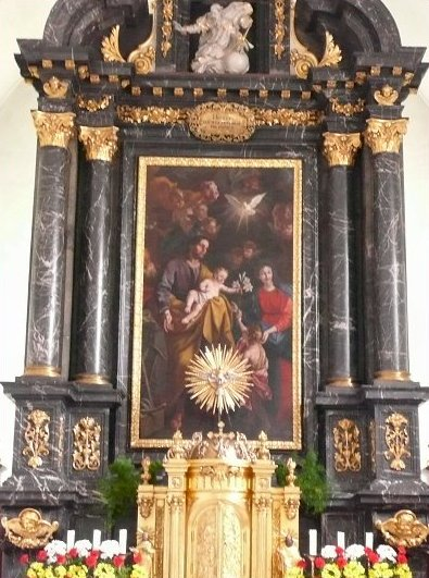 Urfahr, St Joseph's Parish Church. Main altar with painting "St Joseph and Child Jesus" by Johann Karl von Reslfeld.